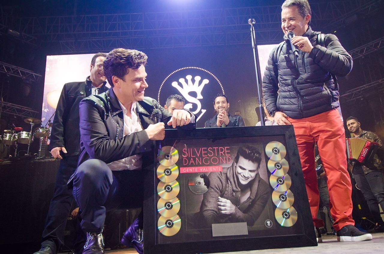 SILVESTRE DANGOND